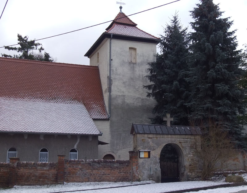 St. Vincenz und Gangolf Church, Storkau, Saxony-Anhalt, Germany